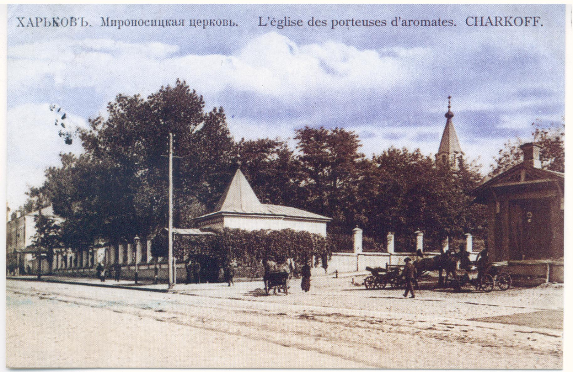 Mironositsky church in Kharkiv. Russian Emrire postcard.